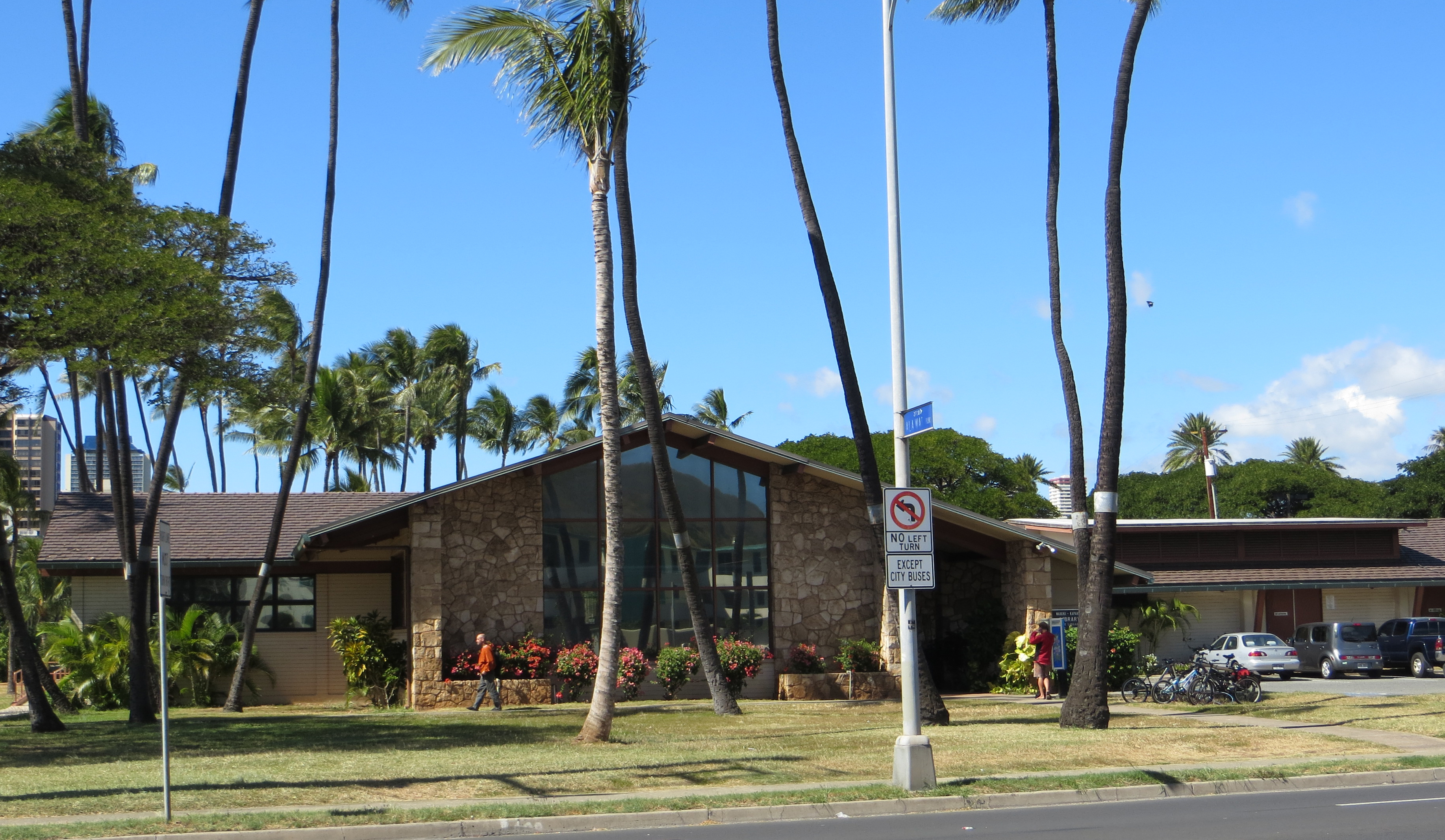 Waikiki-Kapahulu Public Library, 400 Kapahulu Ave., Honolulu, HI, USA